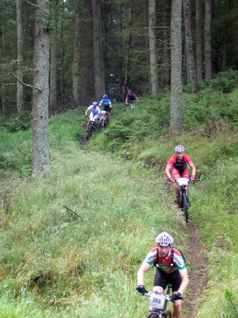 New Mountainbike Route on Three Brethren